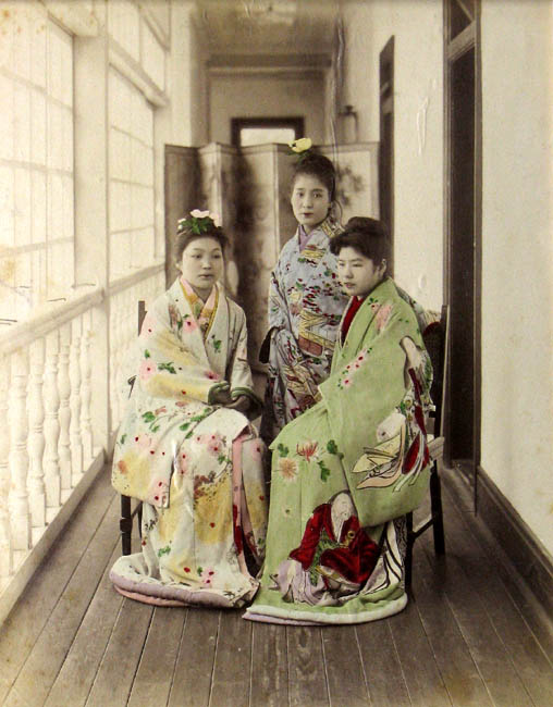 Three Yuujo (courtesans) posing on an engawa [veranda]. Hand-coloured albumen silver print by Adolfo Farsari, c.1885. These are not maiko. Maiko would not be obi-less. This image was taken at a well known brothel in Yokohama, the Nectarine No. 9. I've seen this photo as a postcard offered on Ebay several times. They are presumably "Rasyamen," prostitutes for foreigners.